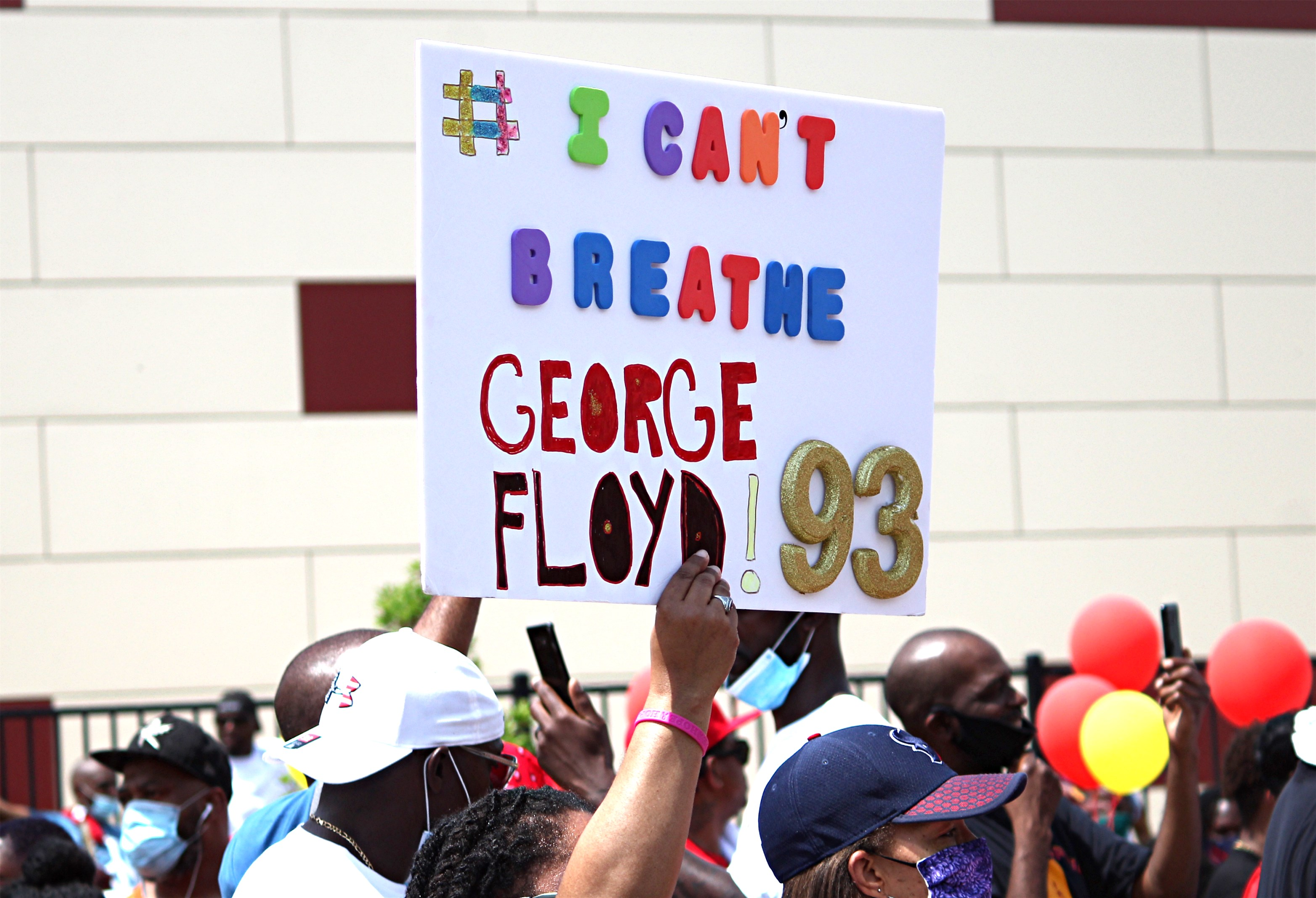 I Can’t Breathe #88 - JY Honors George Floyd Jack Yates High School Alumni parade and vigil honoring alumnus George Floyd, class of 1993. 5-30-20 Houston, TX jy4life